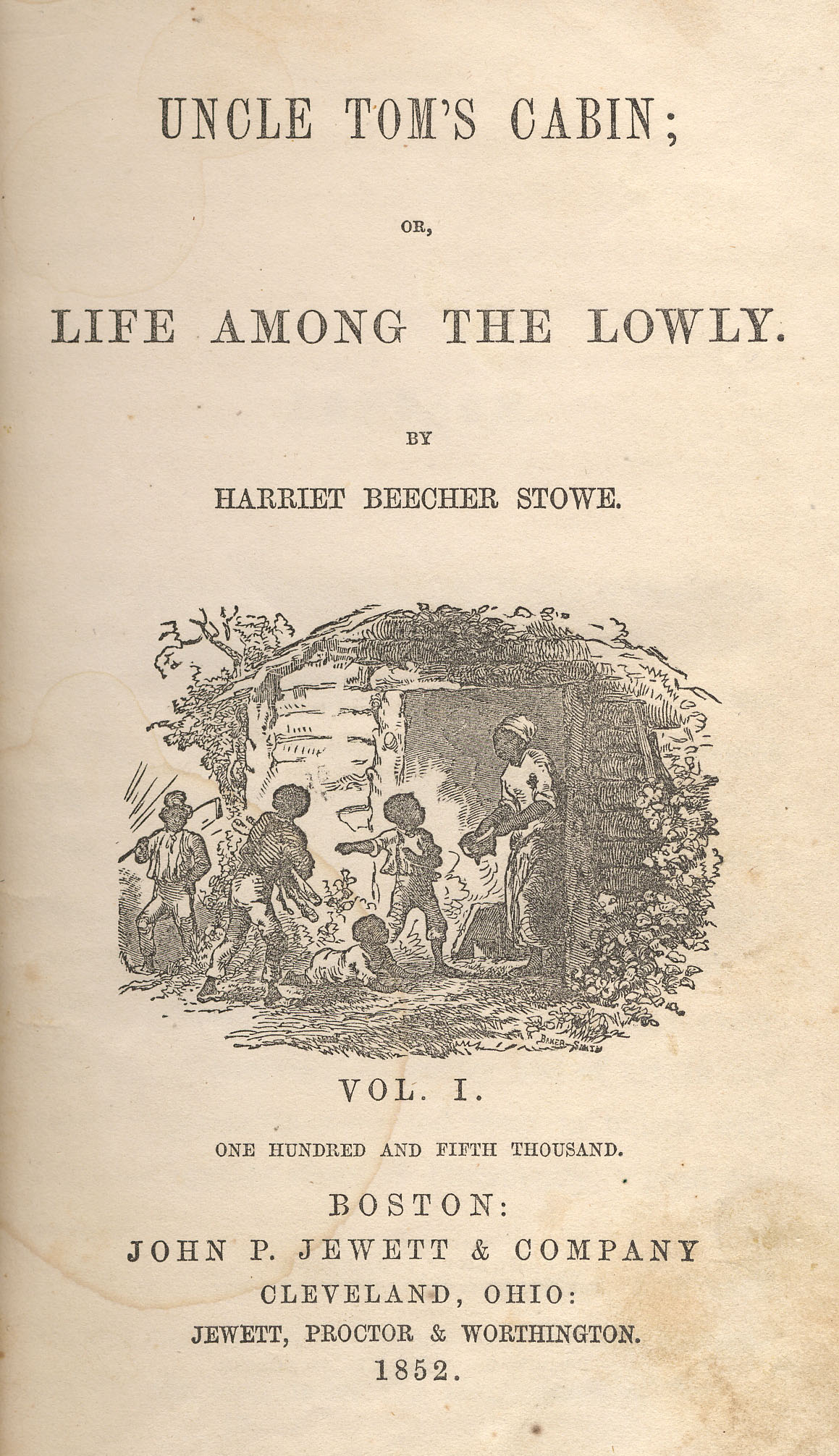 Title-page illustration by Hammatt Billings for Uncle Tom's Cabin [First Edition: Boston: John P. Jewett and Company, 1852]. Shows characters of Chloe, Mose, Pete, Baby, Tom.